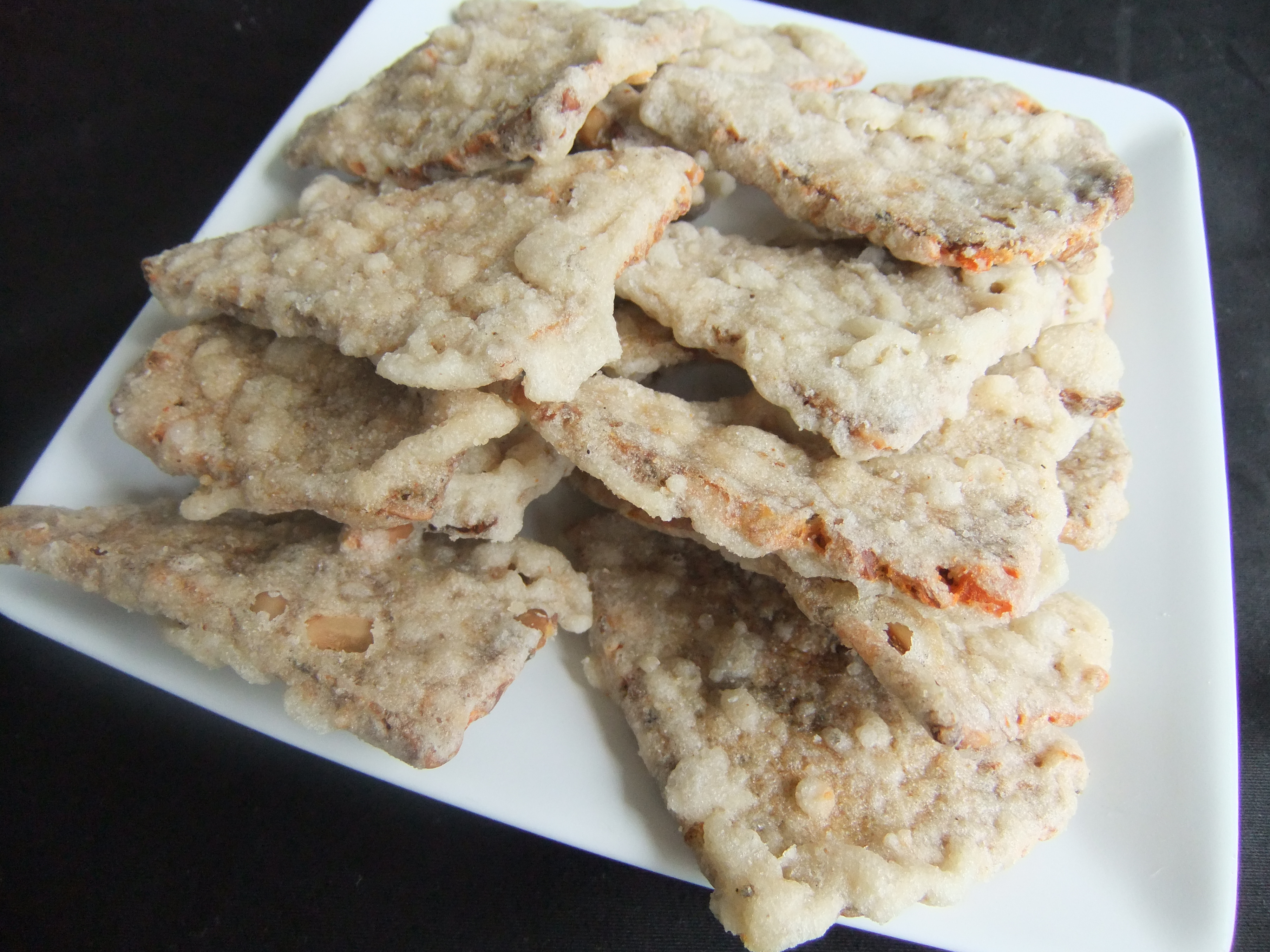 Oncom chips, snacks from Bandung